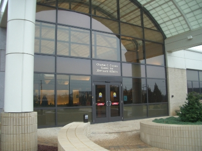 I am the author. I took this picture during a visit to Dover Air Force Base.